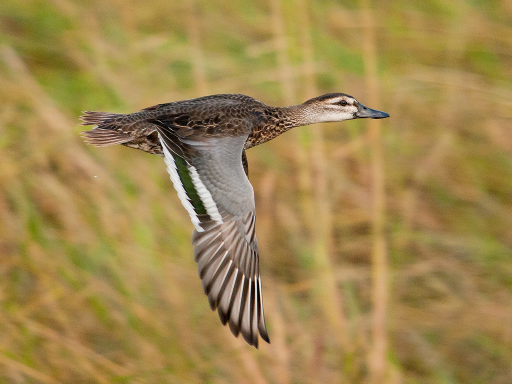 Garganey Anas querquedula, male eclipse in flight. Hong Kong.